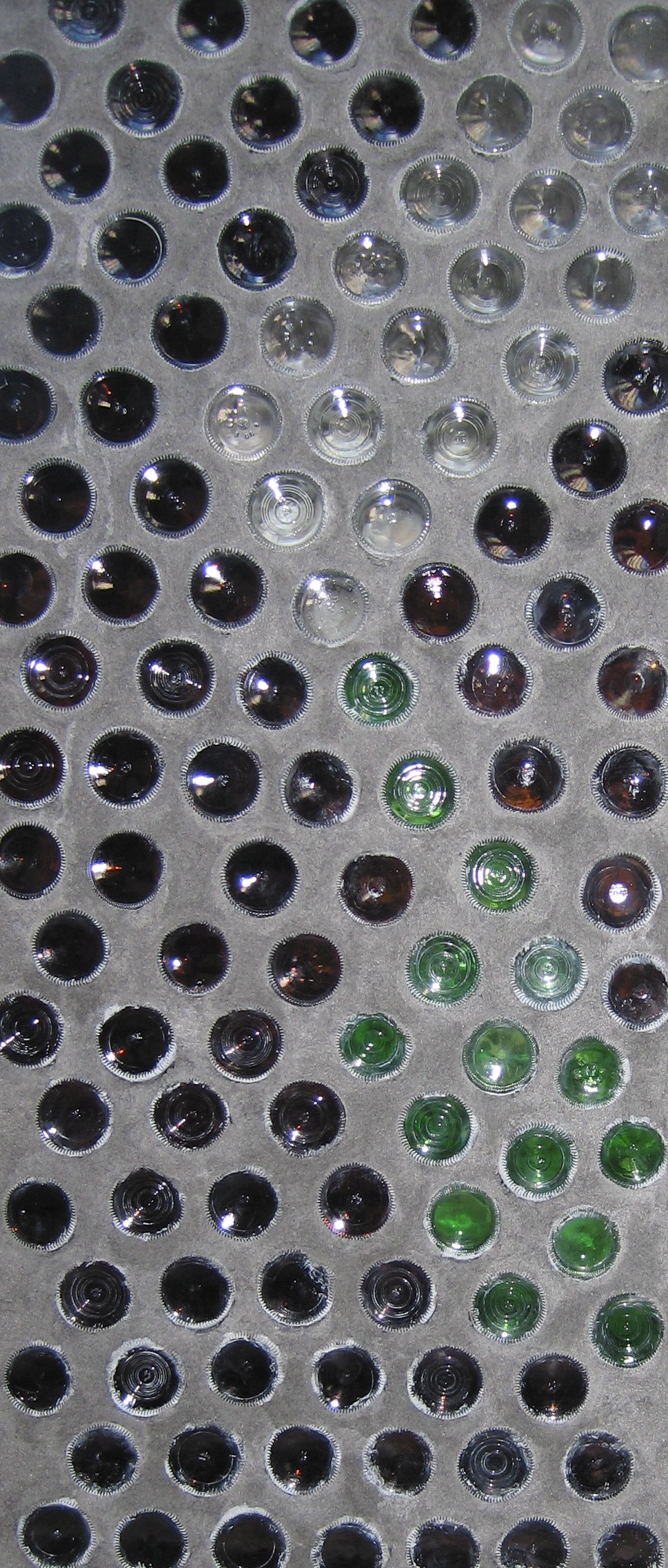 my own picture of my own wall